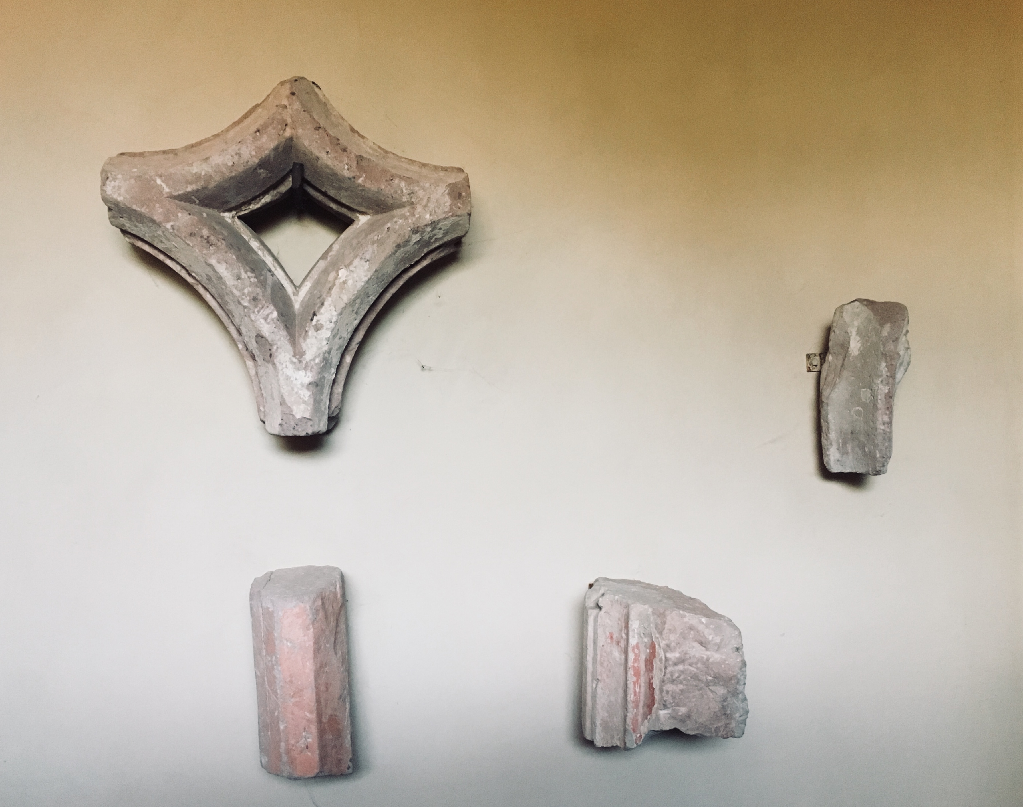 Fragments of a gothic tracery window, St Gereon, Nackenheim (Germany)